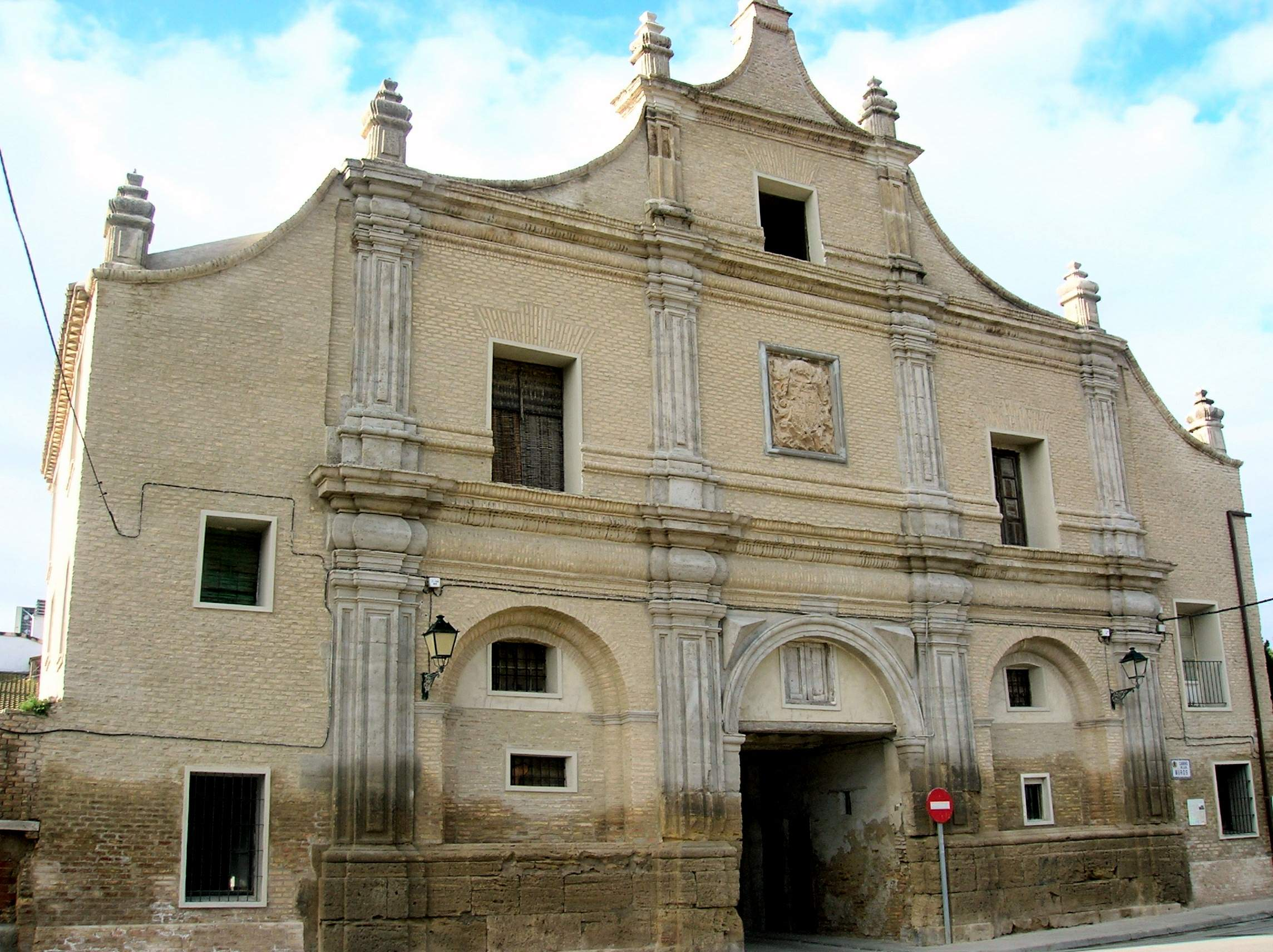 Cartuja de la Inmaculada Concepción (Cartuja de Miraflores o Cartuja Baja) en Zaragoza